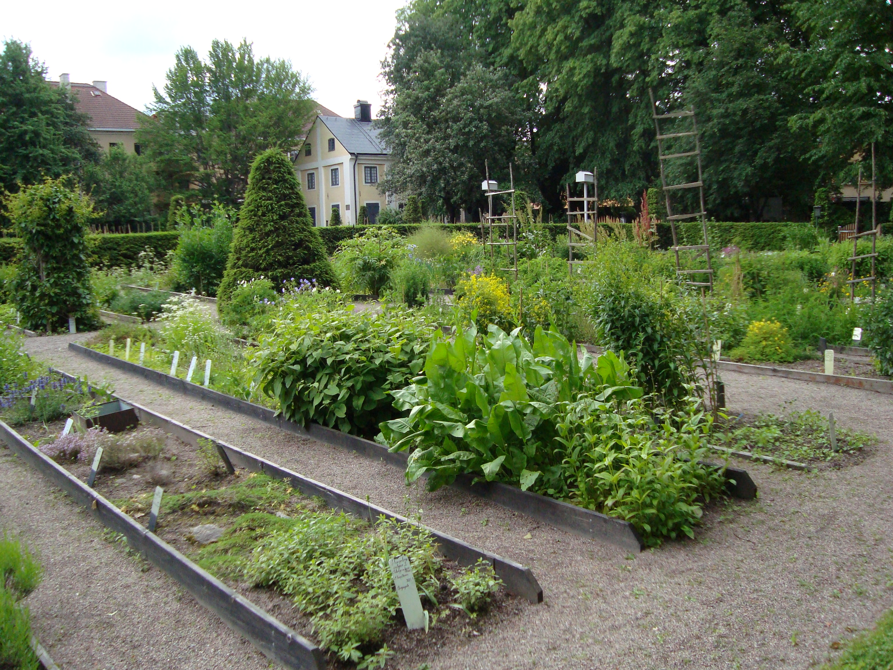 Carl von Linné's garden, Uppsala, Sweden